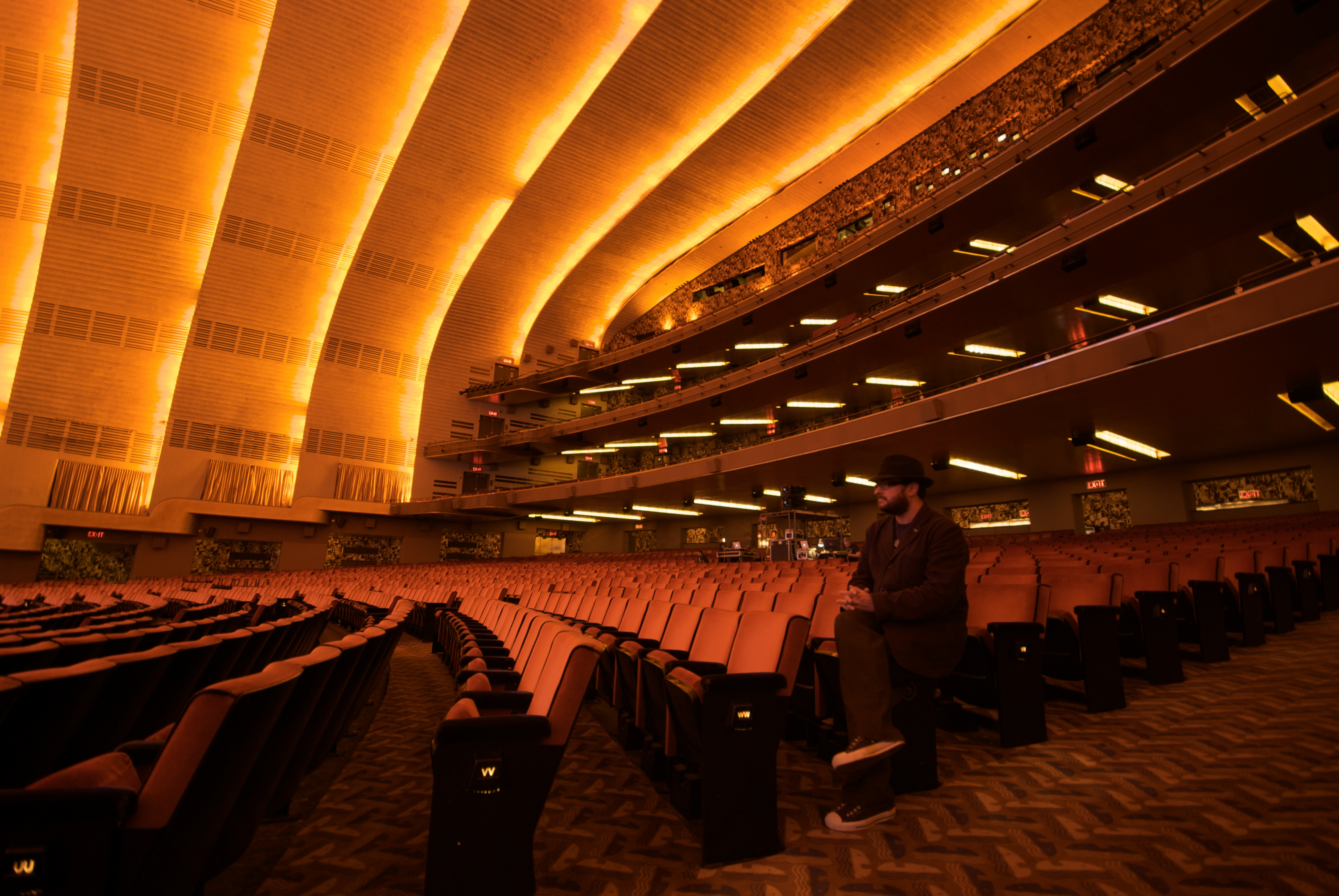 Radio City Music Hall